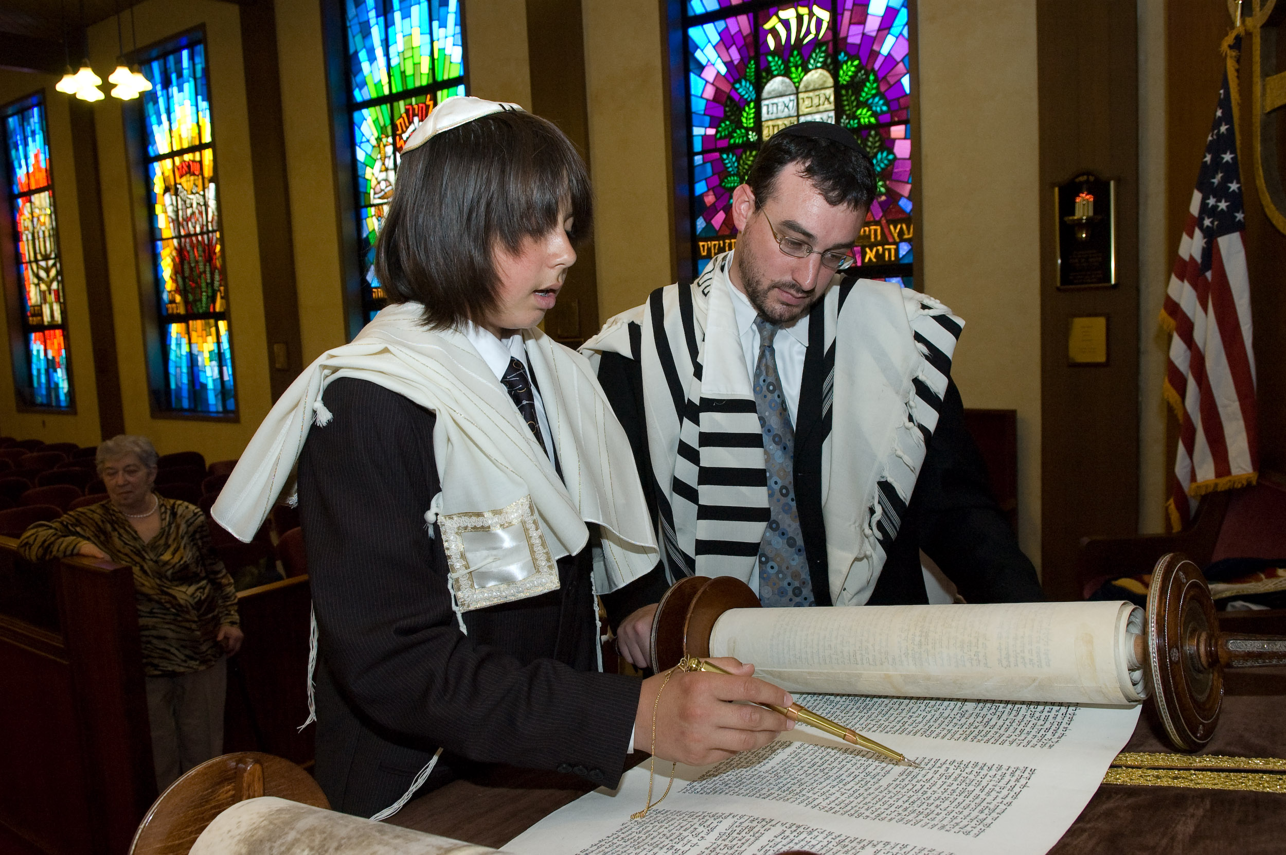 Jewish boy reading the Torah at his Bar Mitzvah, using a Yaad (A Torah pointer).